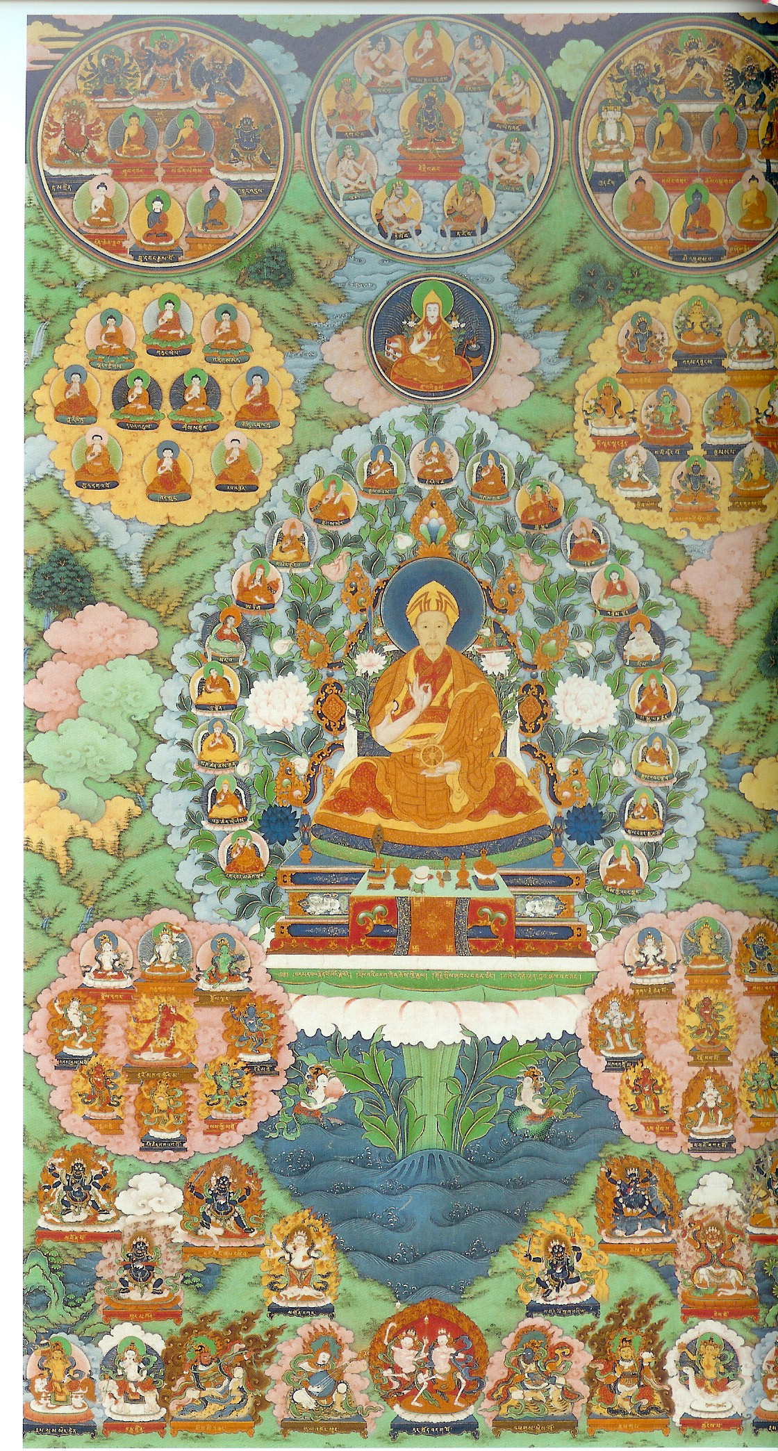 Portrait of the Qianlong emperor as the bodhisattva Manjushri. by Giuseppe Cataglione